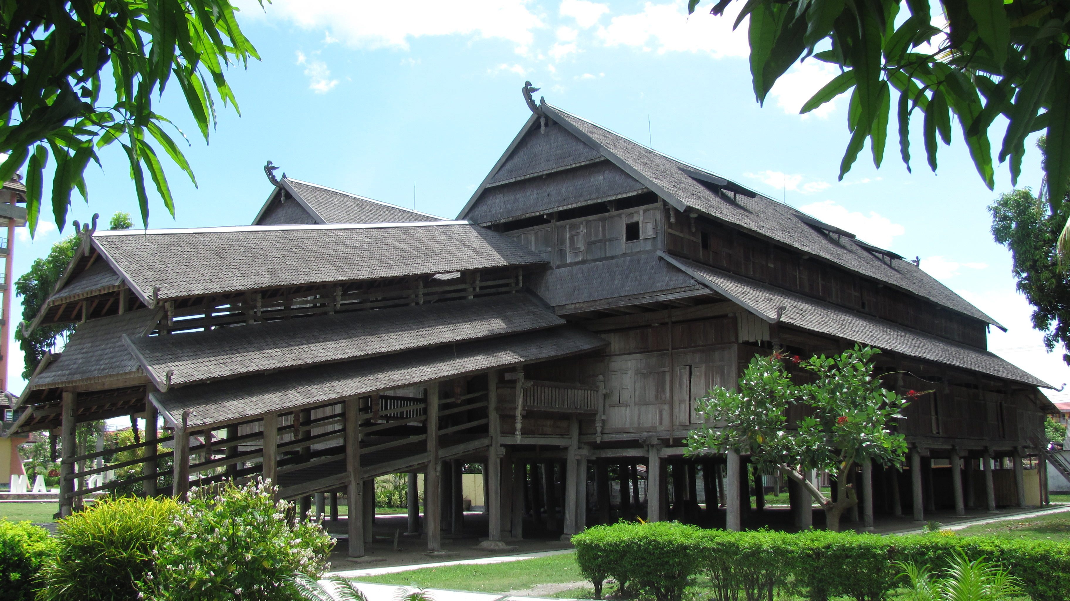 Dalam Loka Palace in Sumbawa Besar, Sumbawa Island, Indonesia